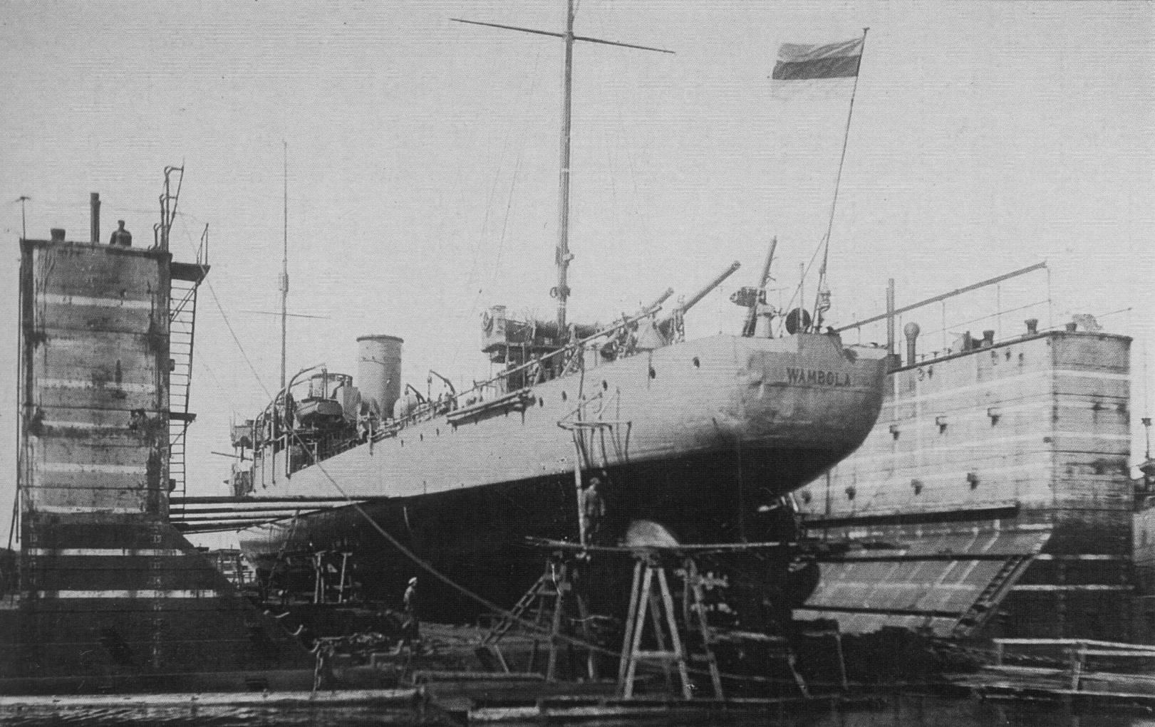 Estonian destroyer Wambola on the dock.